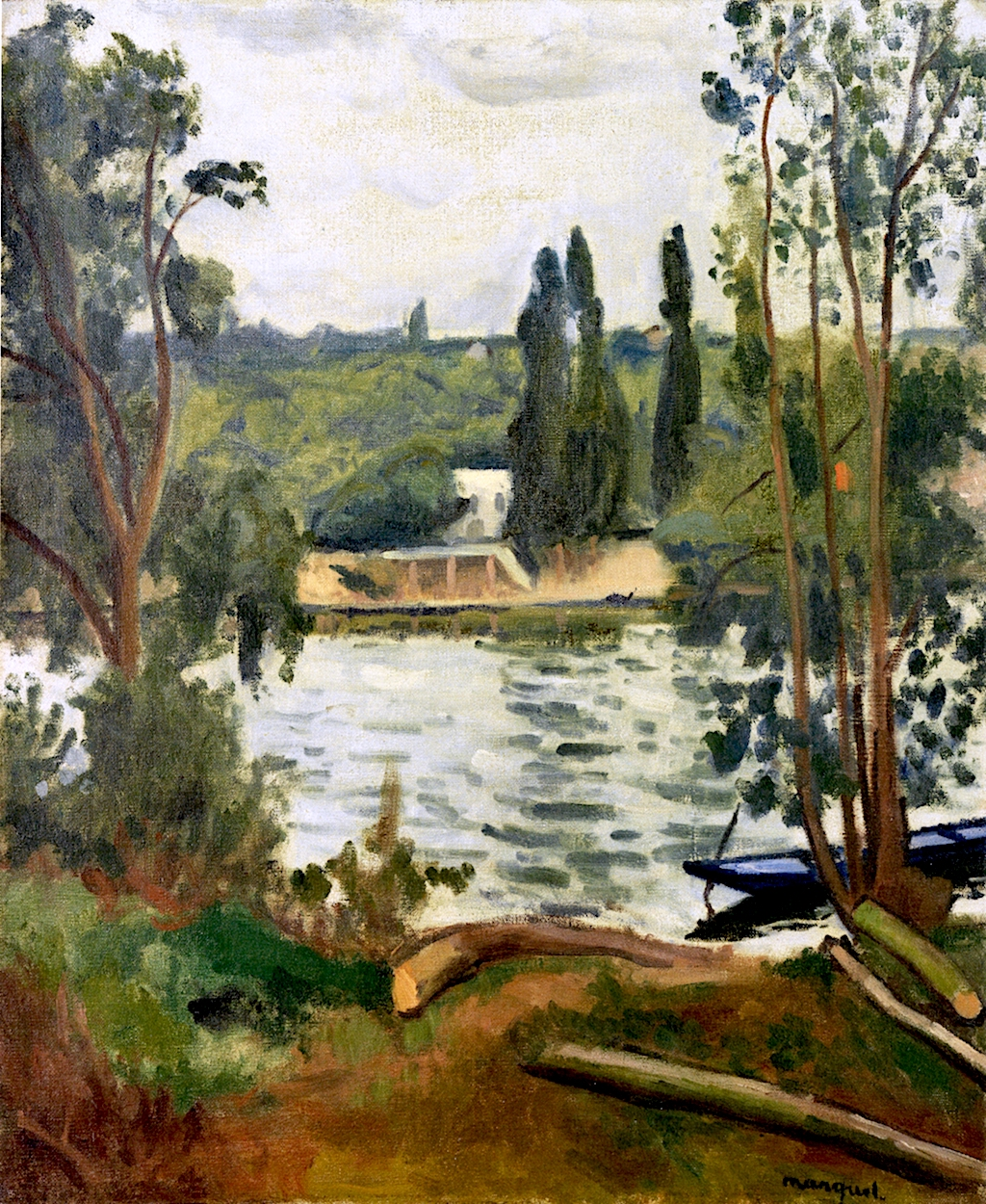 Banks of the Seine at Villennes Albert Marquet (1913)